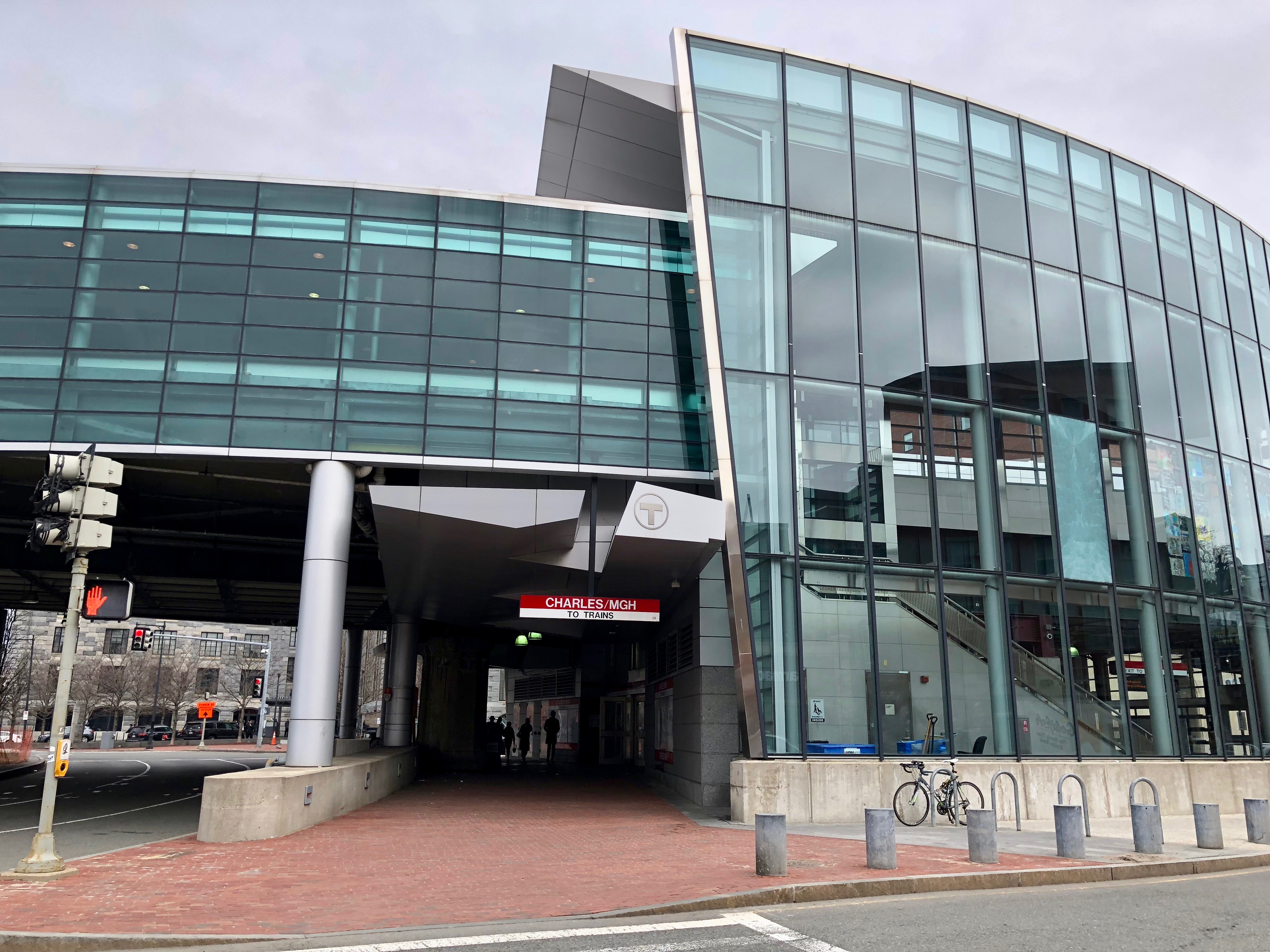 Headhouse of Charles/MGH station in April 2018